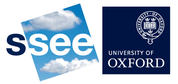 Smith School of Enterprise and the Environment Logo